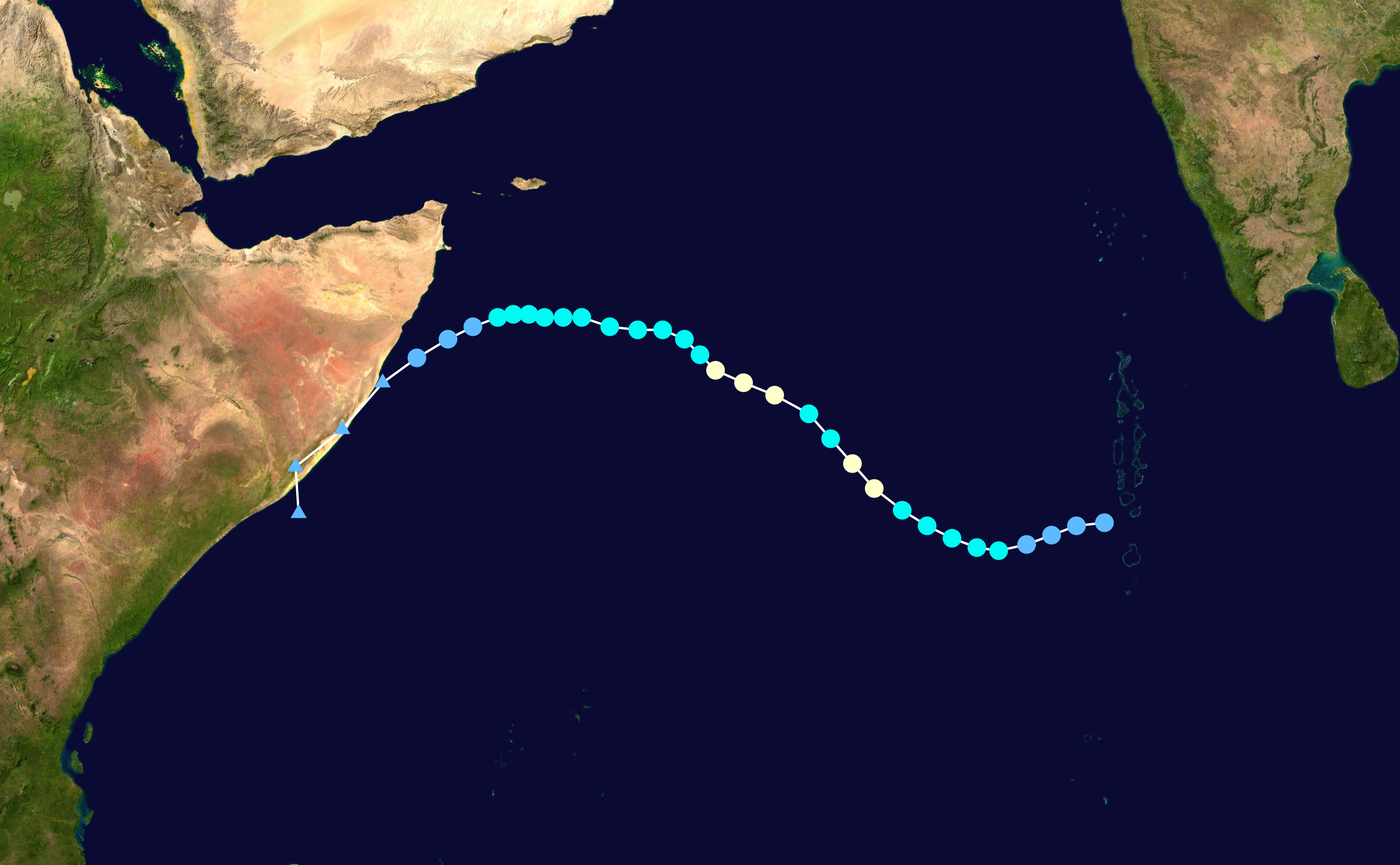 Cyclone Agni (2004) track. Uses the color scheme from the Saffir-Simpson Hurricane Scale.